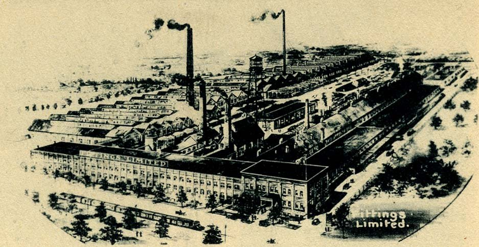 Photograph of industry in Oshawa, Canada. Fittings Limited located on Bruce and Court Sts.